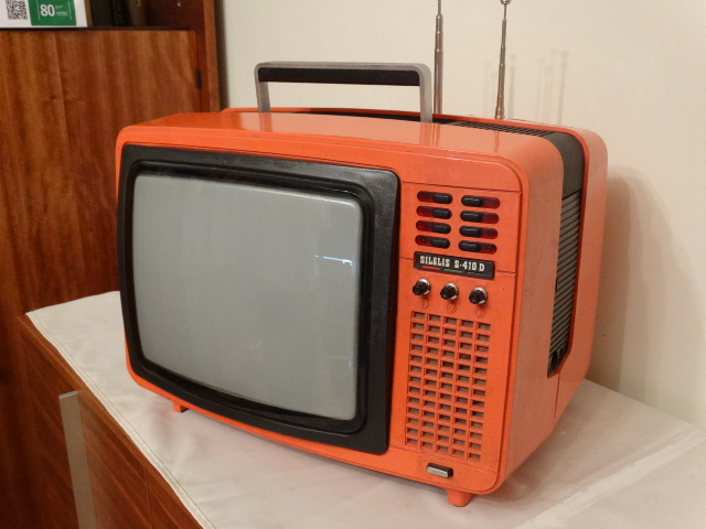 Portable colour TV set Šilelis S-410D, screen 32 cm, made in Lithuania. Collection of Zenonas Langaitis